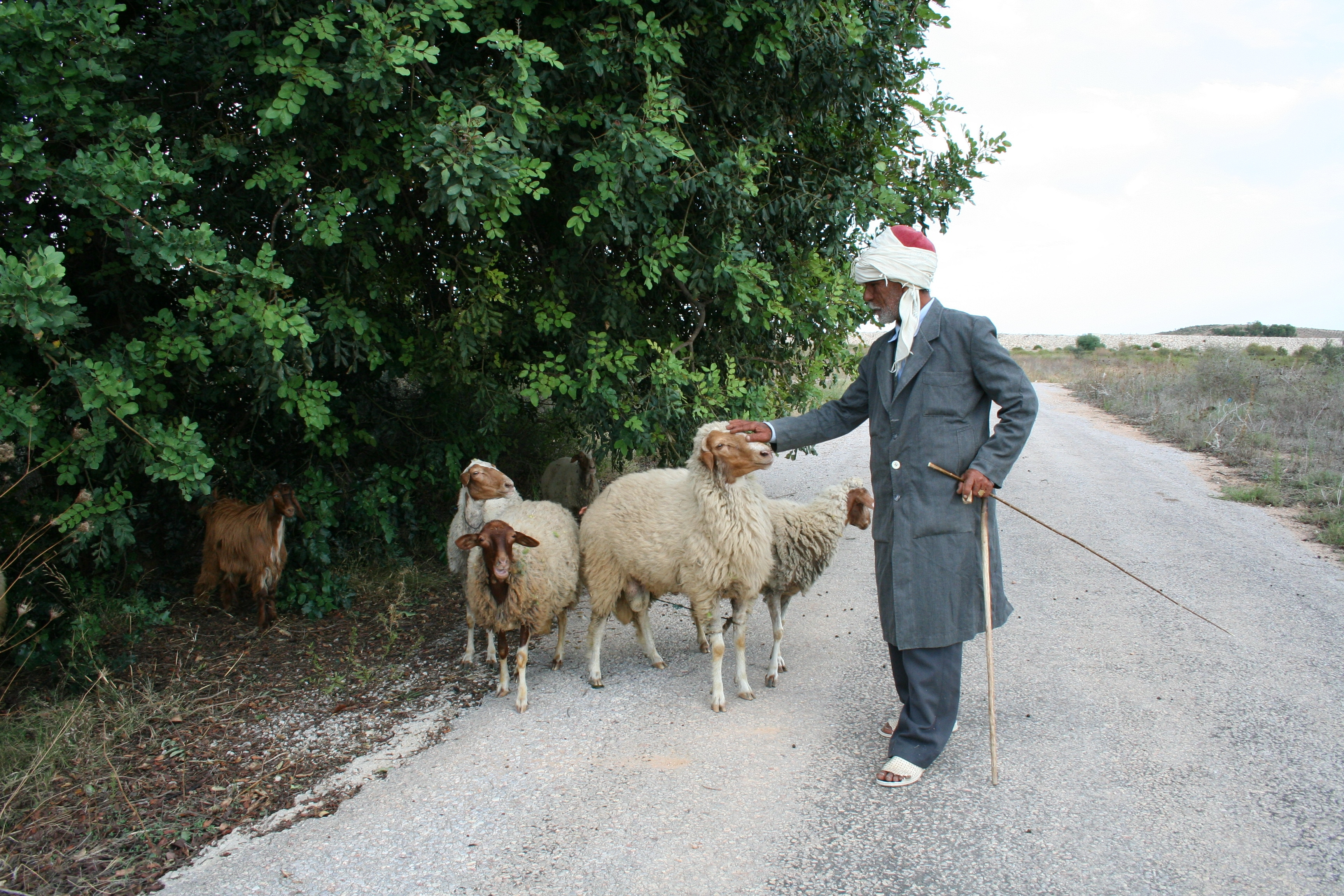 A collection of contemporary photos, dedicated to the people of Tunisia I dedicate this collection of photographs to the people of Tunisia, where I had the great privilege to live, work , explore and photograph between 2002 and 2006. Apart from the natural beauty and climate, what remains deepest in my memory is the warmth and friendship of the people and a national pride driven by the heartbeat of culture and civilisation. I hope that this selection of photos conveys some of that. The importance of Tunisia’s growth as a nation post World War II, and the example it set in gender equality and education are second to none. Tunisia was prepared to challenge and change; it is a beacon to all seeking equality, justice and peace. Nicholas Gosse, 2015